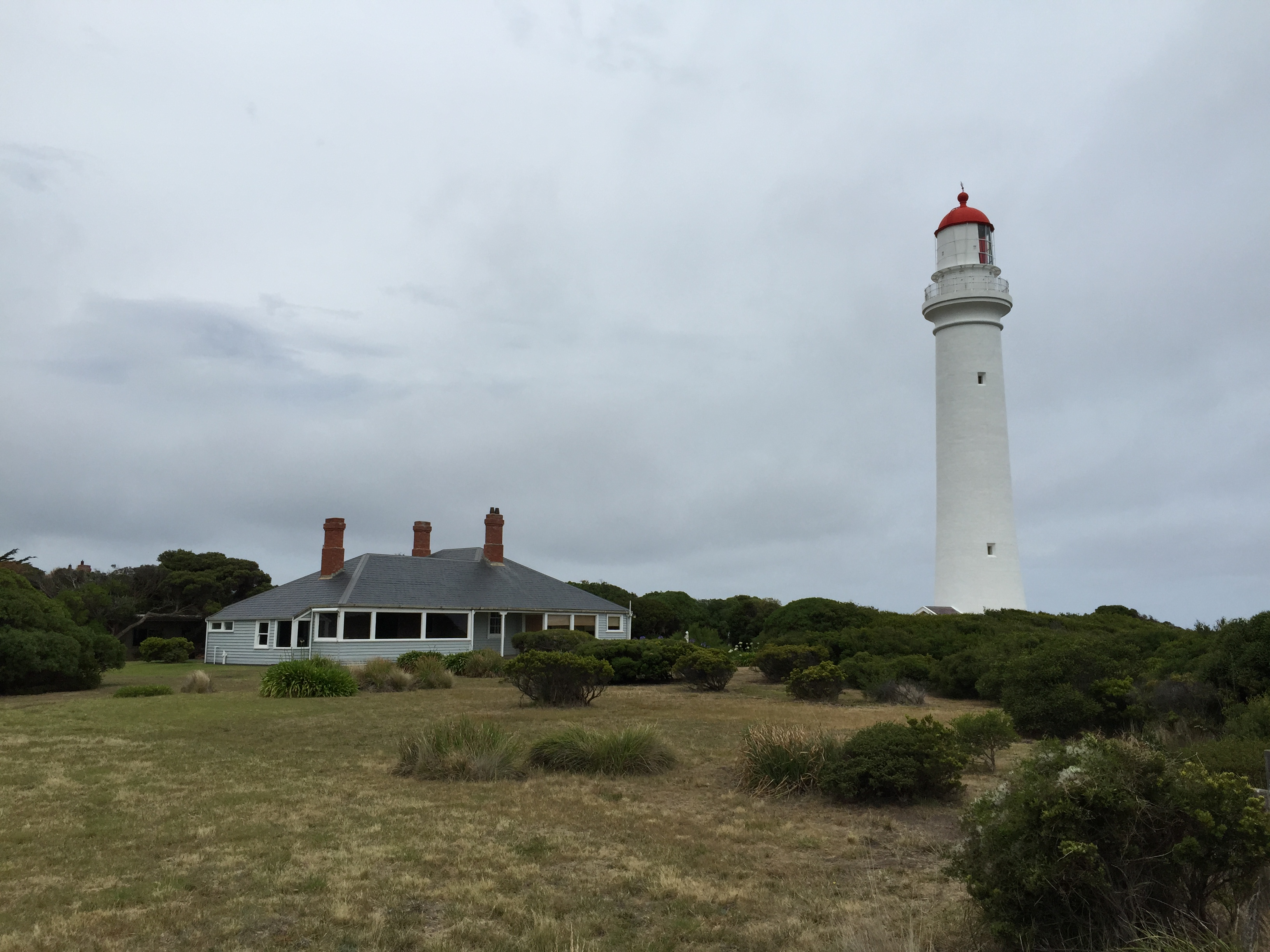 Aireys Inlet - Fairhaven VIC 3231, Australia